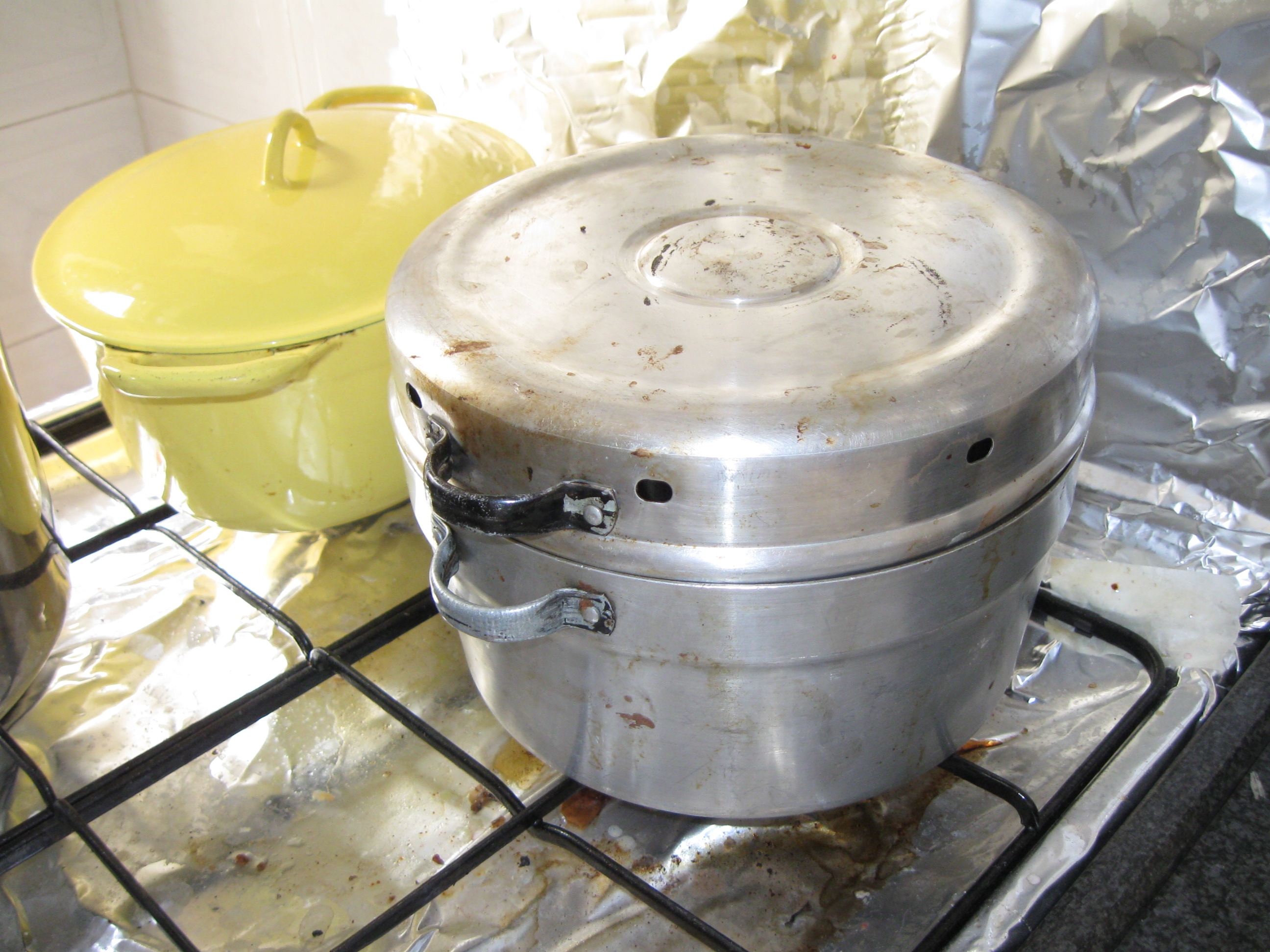 A Wonder Pot (right) in use on the stovetop.